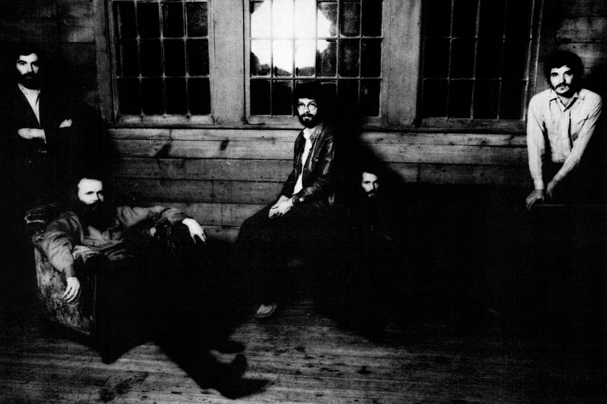 Trade ad for The Band's album Stage Fright.